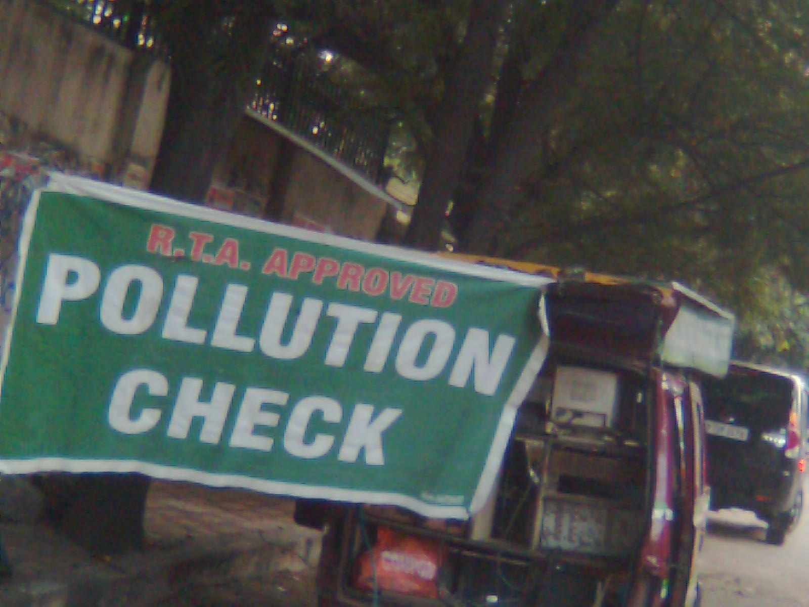 Pollution Check Banner